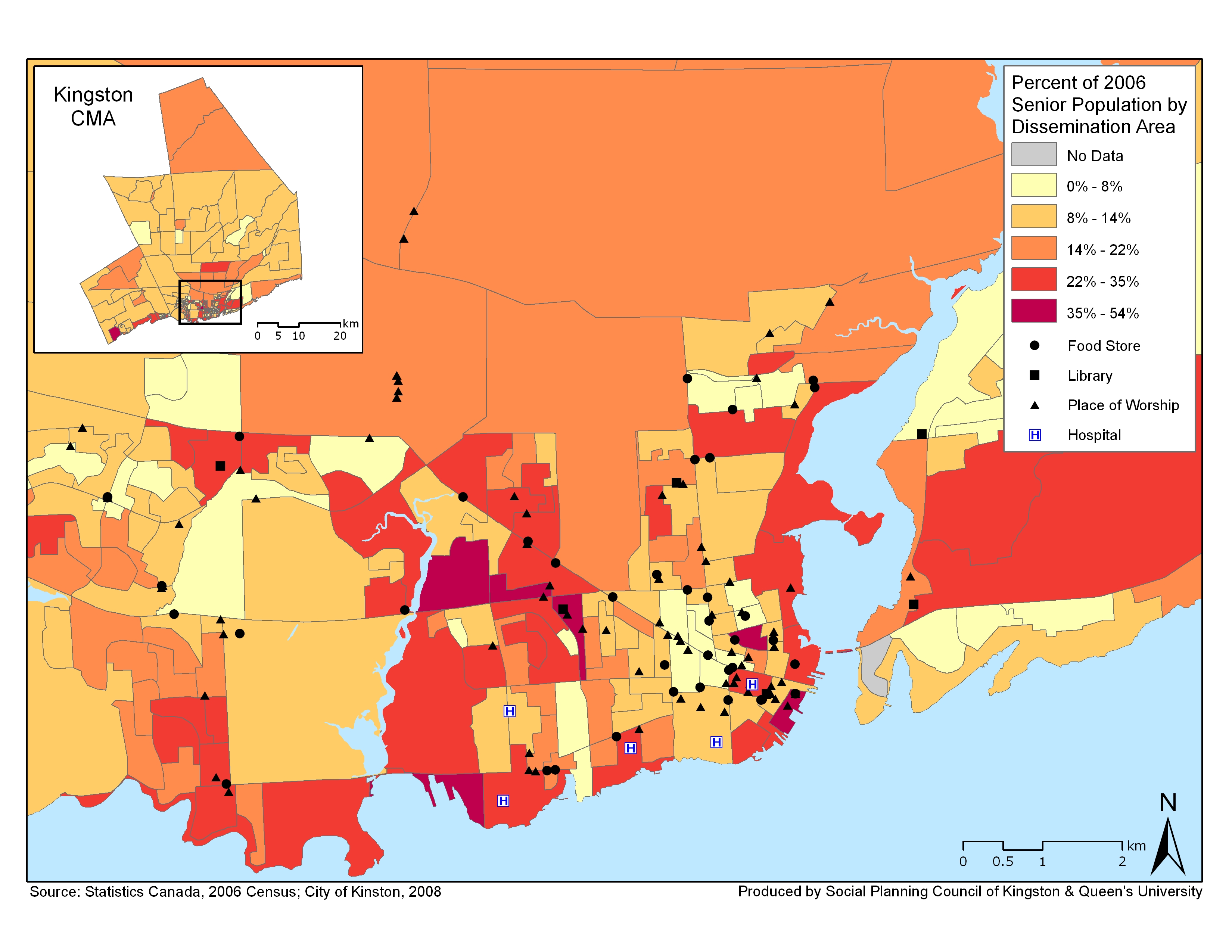 Seniors population map of Central Kingston based on the 2006 Canadian census by Statistics Canada, Social Planning Council Kingston and District